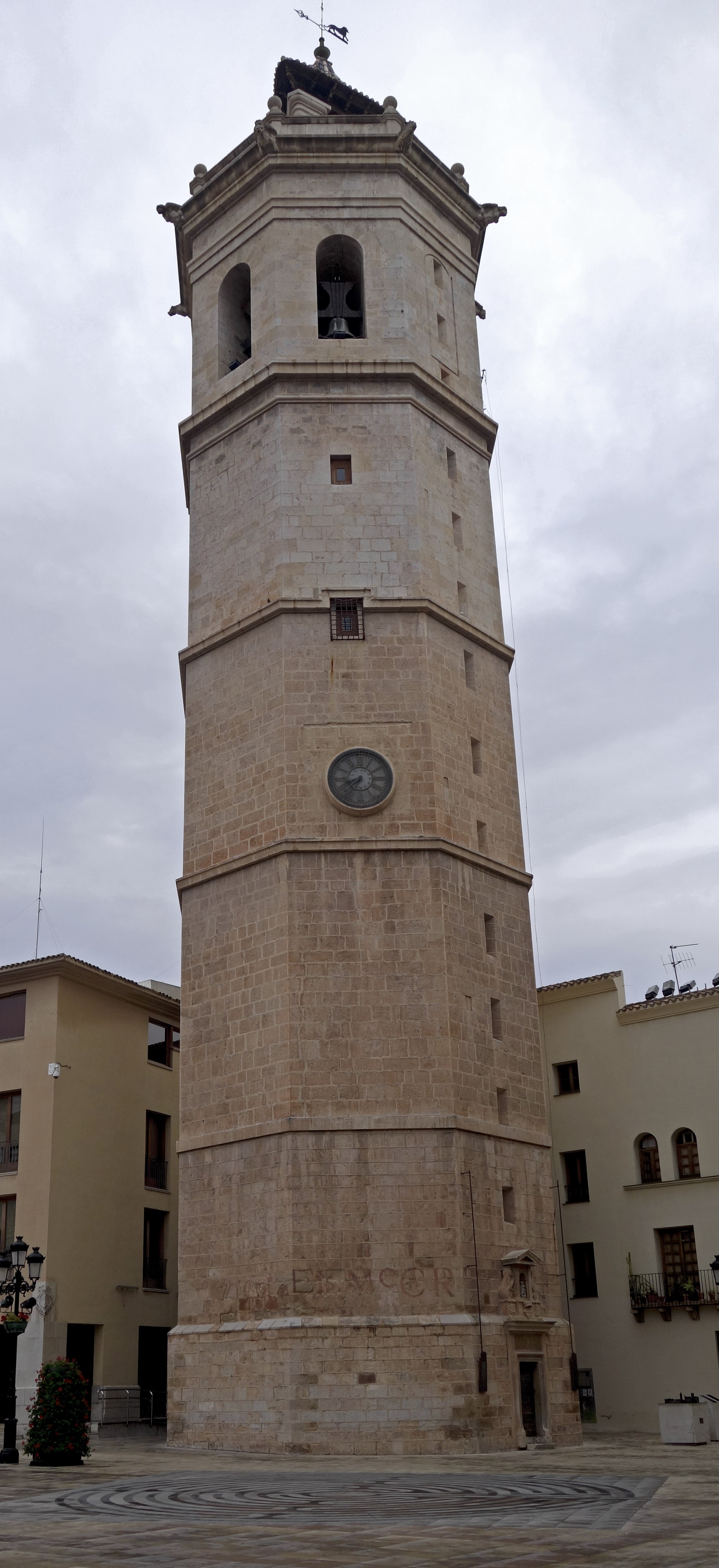 El Fadrí, Con-Cathedral of Castellón church tower (Spain)